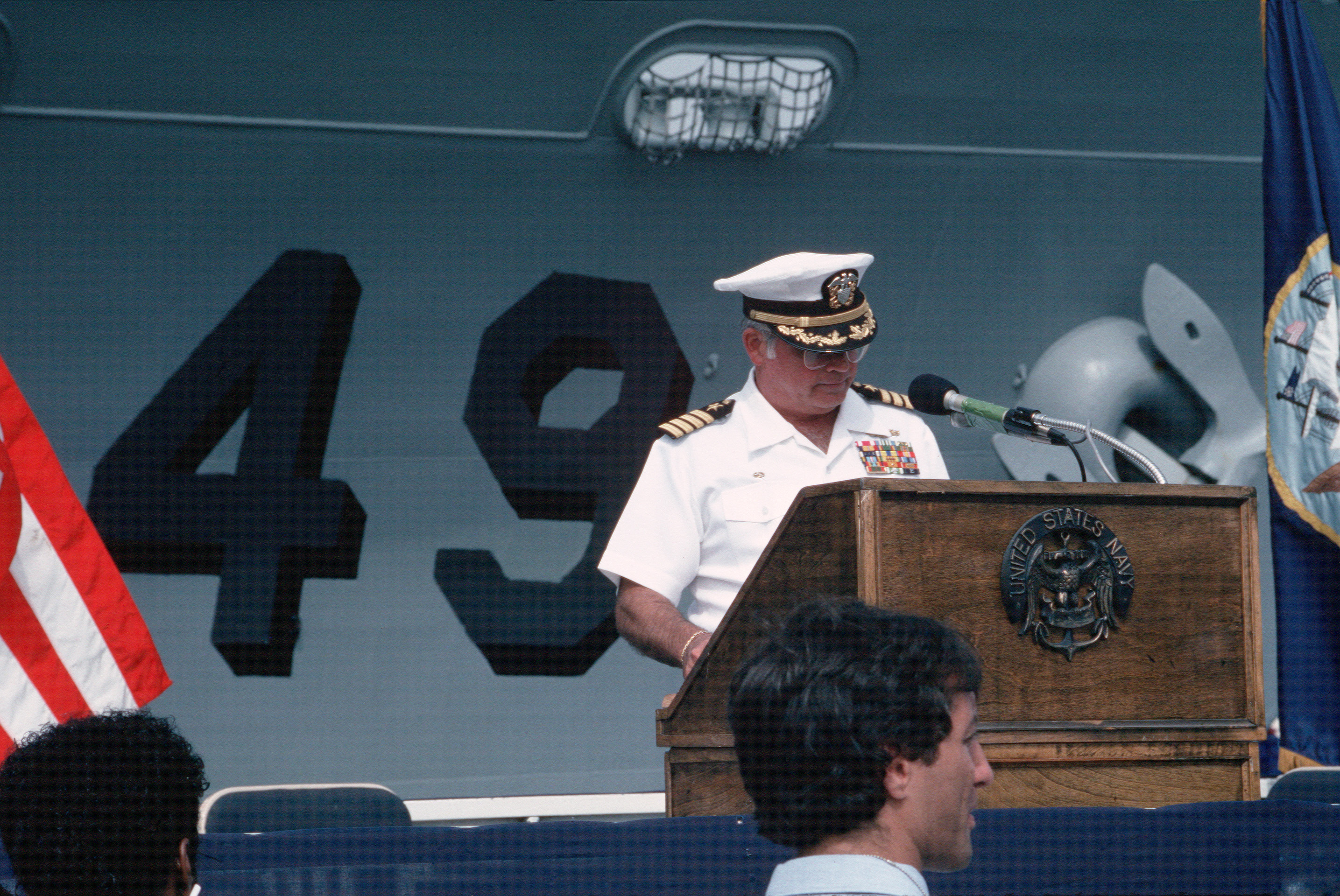 Captain (CAPT) Will C. Rogers III, commanding officer of the guided missile cruiser USS VINCENNES (CG 49), speaks during the welcome home ceremony being held for the crew of the VINCENNES. The ship is returning from a six-month deployment to the Western Pacific, Indian Ocean and Arabian Gulf.Location: SAN DIEGO, CALIFORNIA (CA) UNITED STATES OF AMERICA (USA)